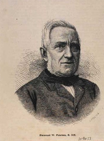 Nicolay Wilhelm Petersen (1817-1895), Danish merchant and politician, MP